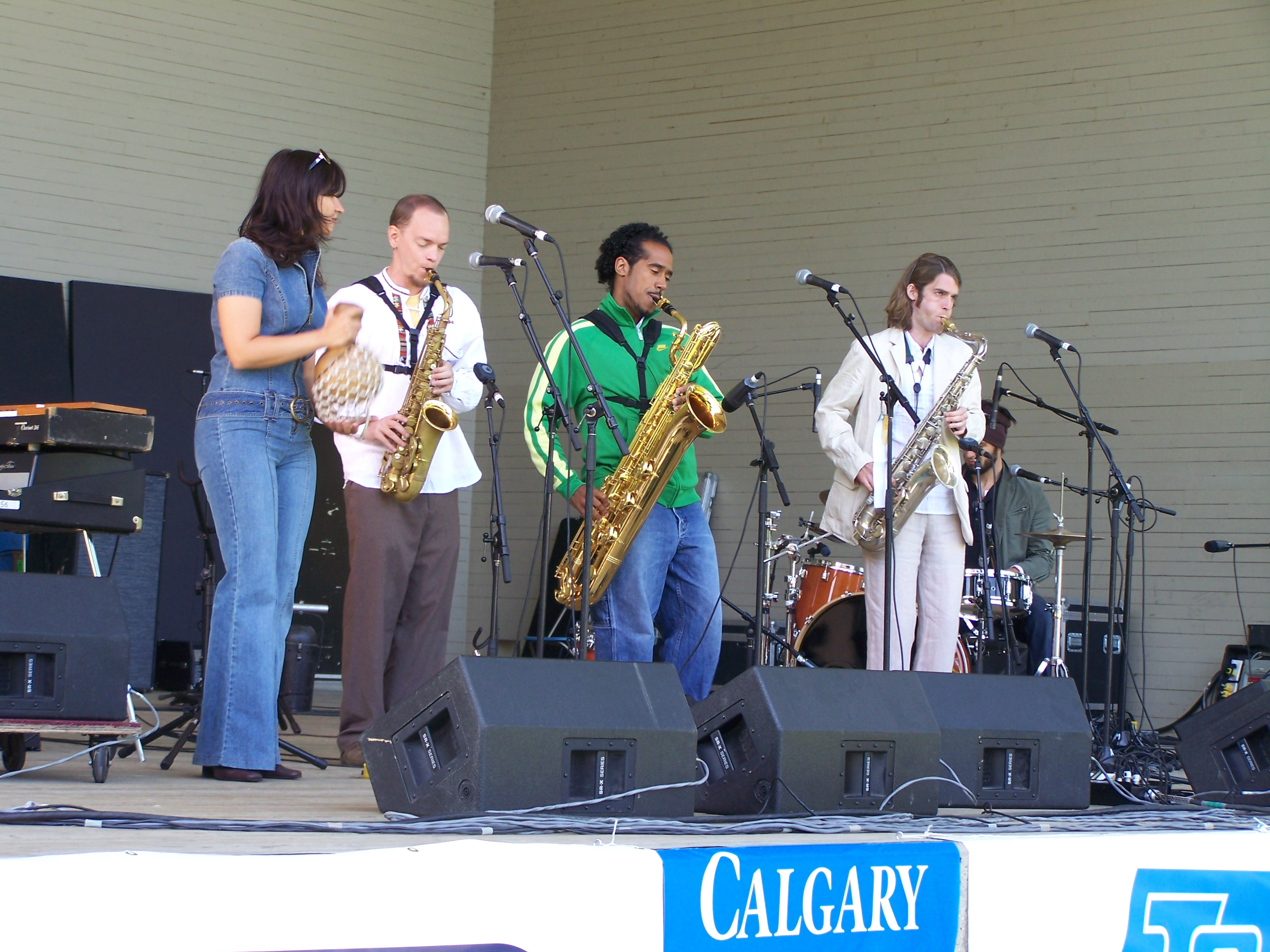 The Souljazz Orchestra playing at Prince's Island as part of the Afrikadey festival in Calgary, Alberta, Canada. Marielle Rivard is the person on the left.